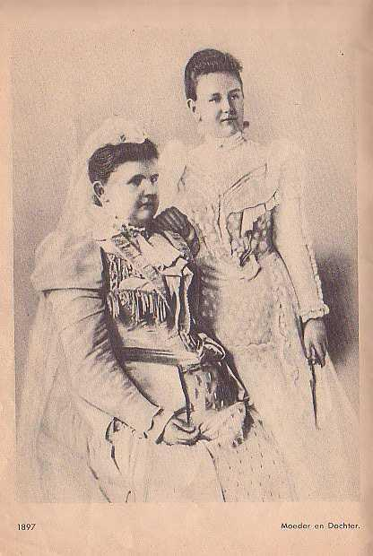 Emma and Wilhelmina in 1897